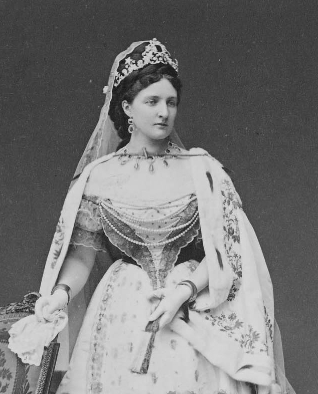 Princess Clotilde of Saxe-Coburg and Gotha (1846-1927), Archduchess of Austria